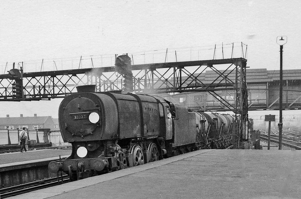 Down milk empties at Clapham Junction (Windsor Lines). View eastward, towards Waterloo etc.: ex-LSW and LB&SC major junction, also connecting with West London Extension Line. The train, probably from the Milk Depot at Vauxhall, is passing under the great 'A' signalbox (with its wartime steel canopy) and along the Platform 4 line towards Putney, Richmond etc., headed by Bulleid wartime Q1 class 0-6-0 No. 33027 (built 7/42 as C11, withdrawn 1/66).